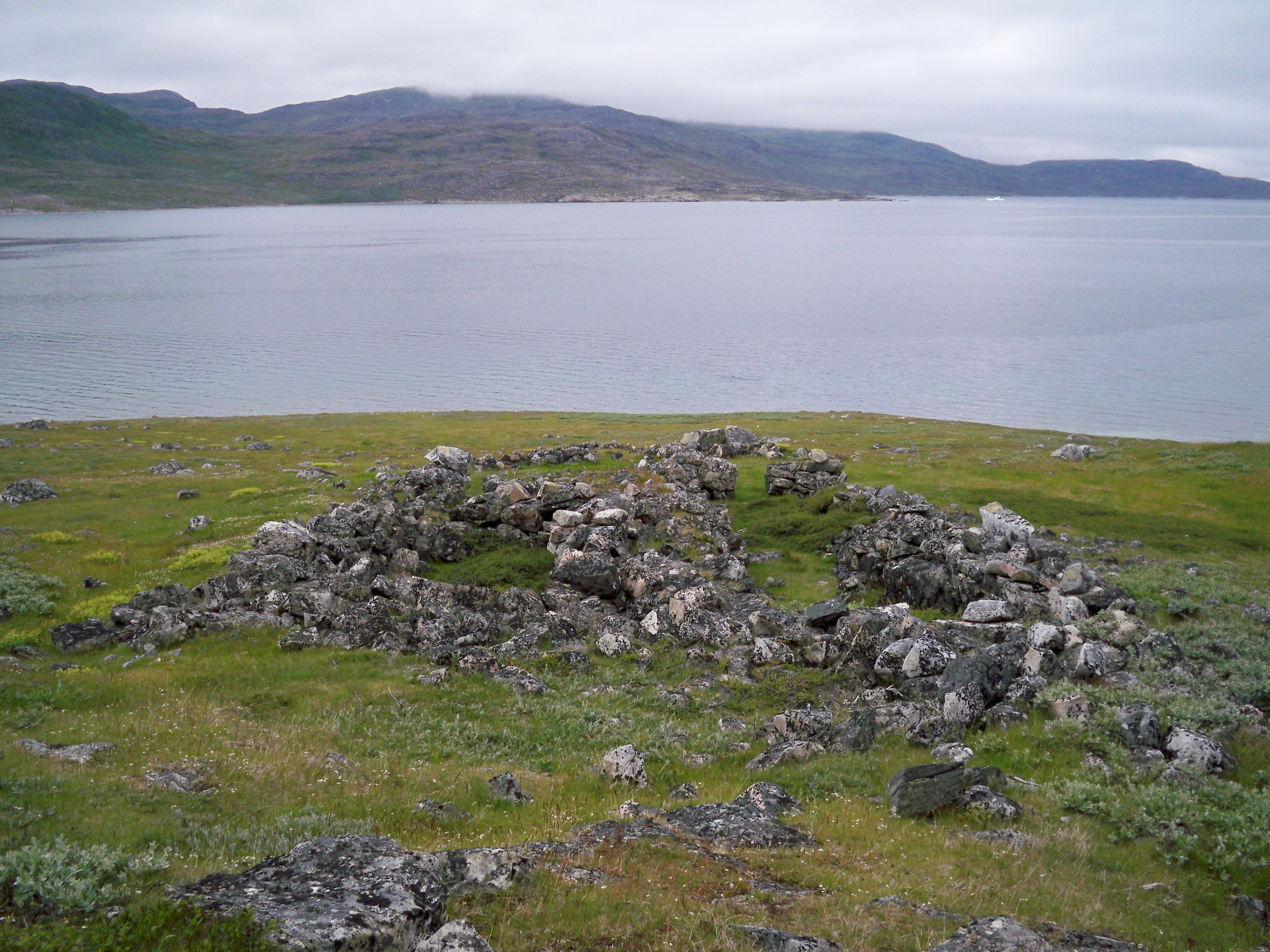 Nearby stables ; Hvalsey Church